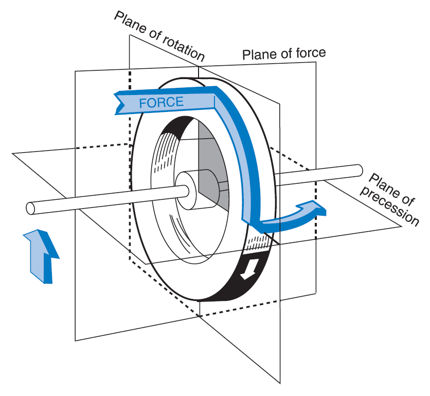 Figure 3-31. Precession causes a force applied to a spinning wheel to be felt 90° from the point of application in the direction of rotation. Source: Instrument Flying Handbook (IFH) FAA-H-8083-15. [Update 25 Nov 05]